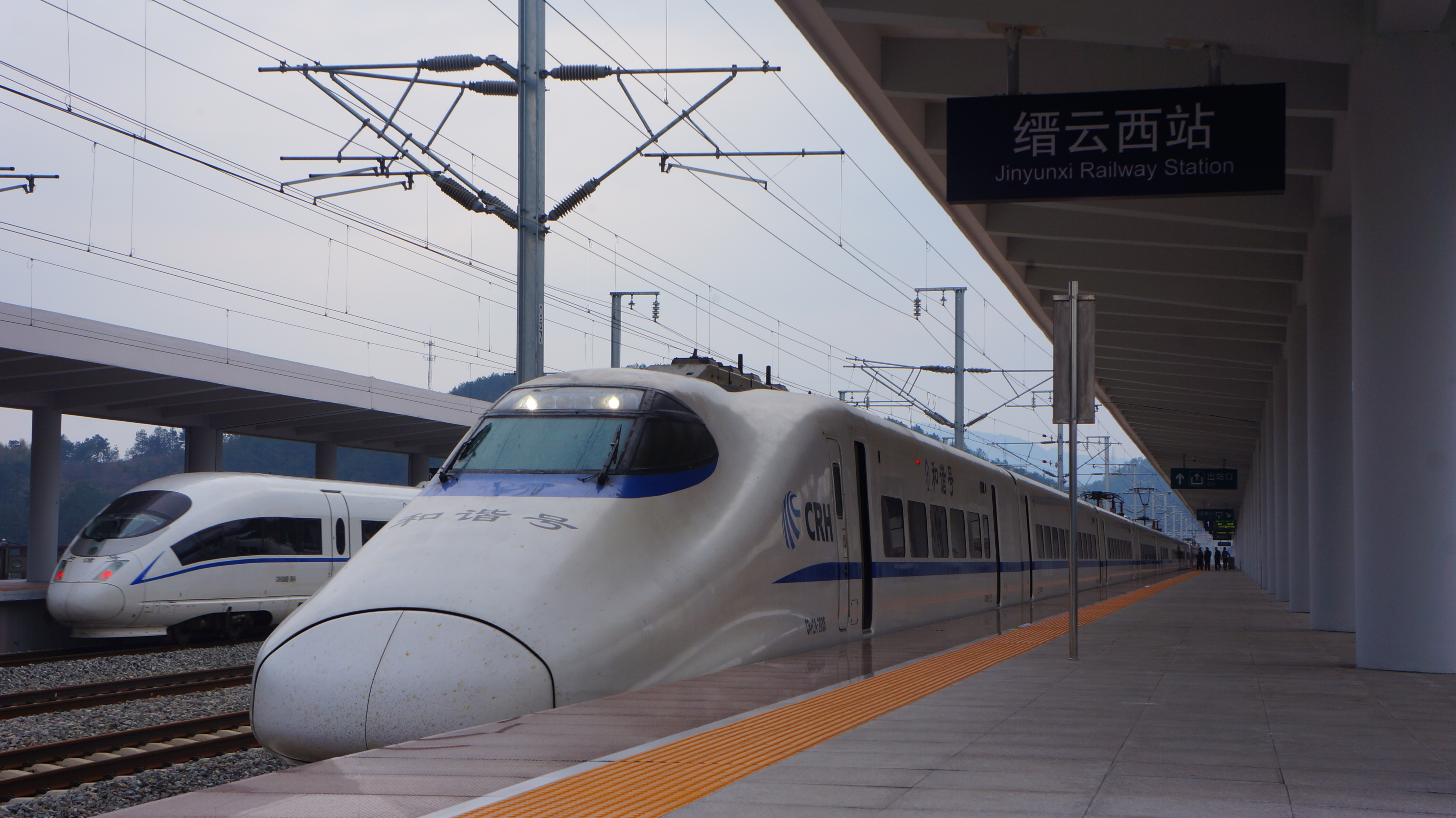 201603 CRH2A and CRH380B at Jinyunxi Station